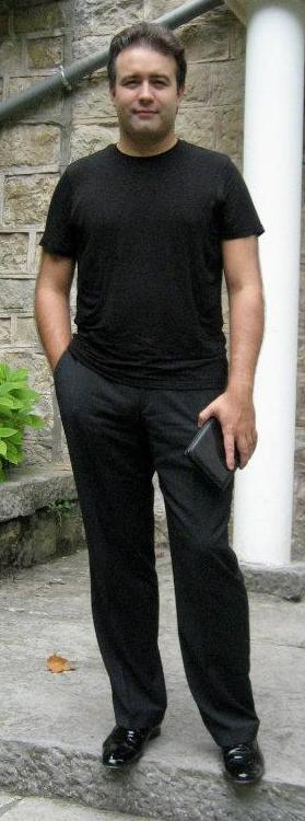 Alexey Volodin